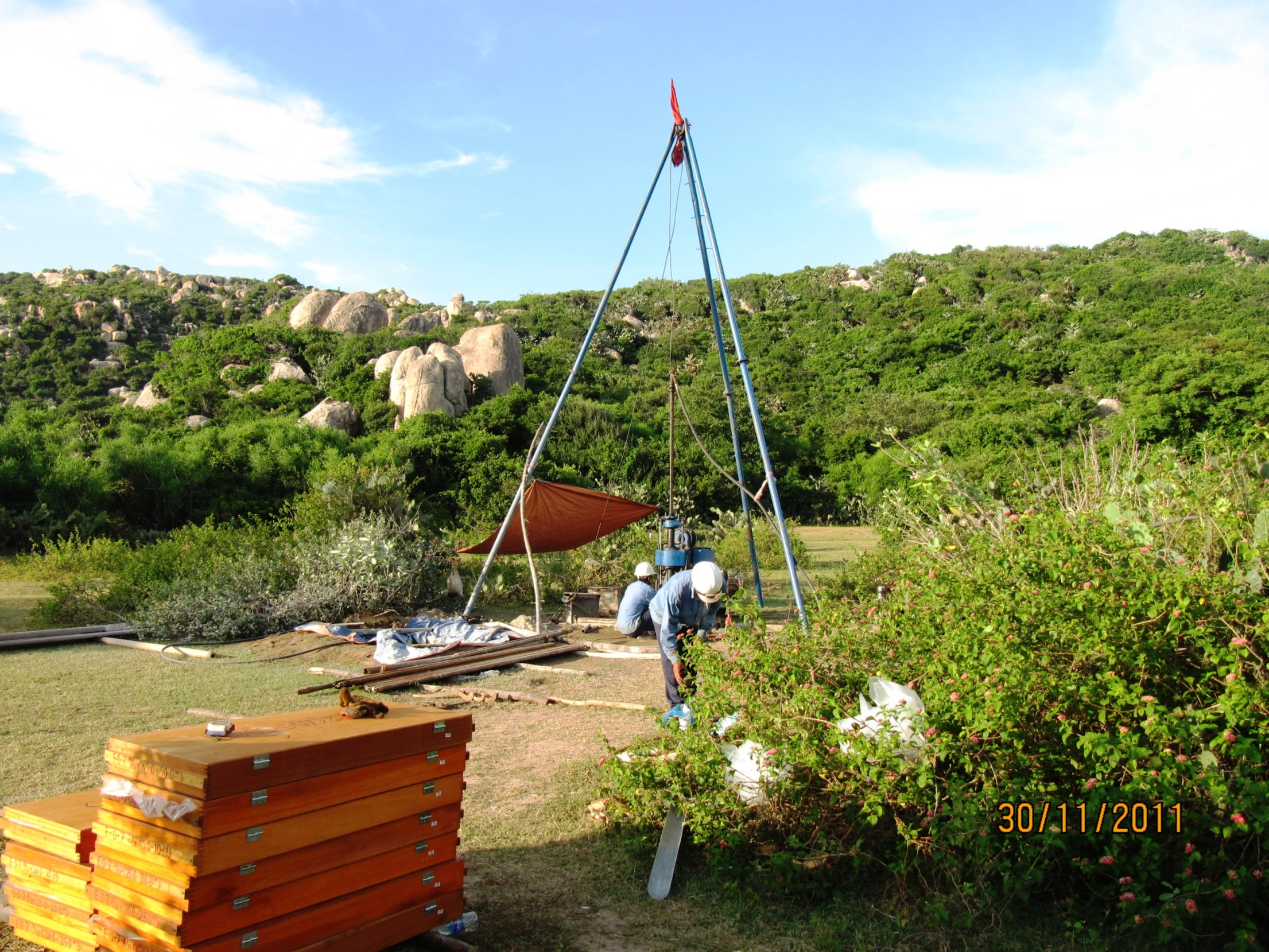 Drilling for geological survey in Vinh Hai, Ninh Thuan, Vietnam.